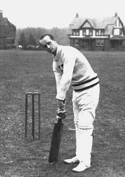 American cricketer C Christopher Morris at Haverford College in Haverford, Pennsylvania.